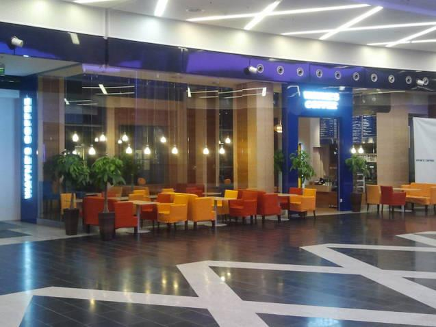 Wayne's Coffee in Millenium Hall, Rzeszów, Poland.